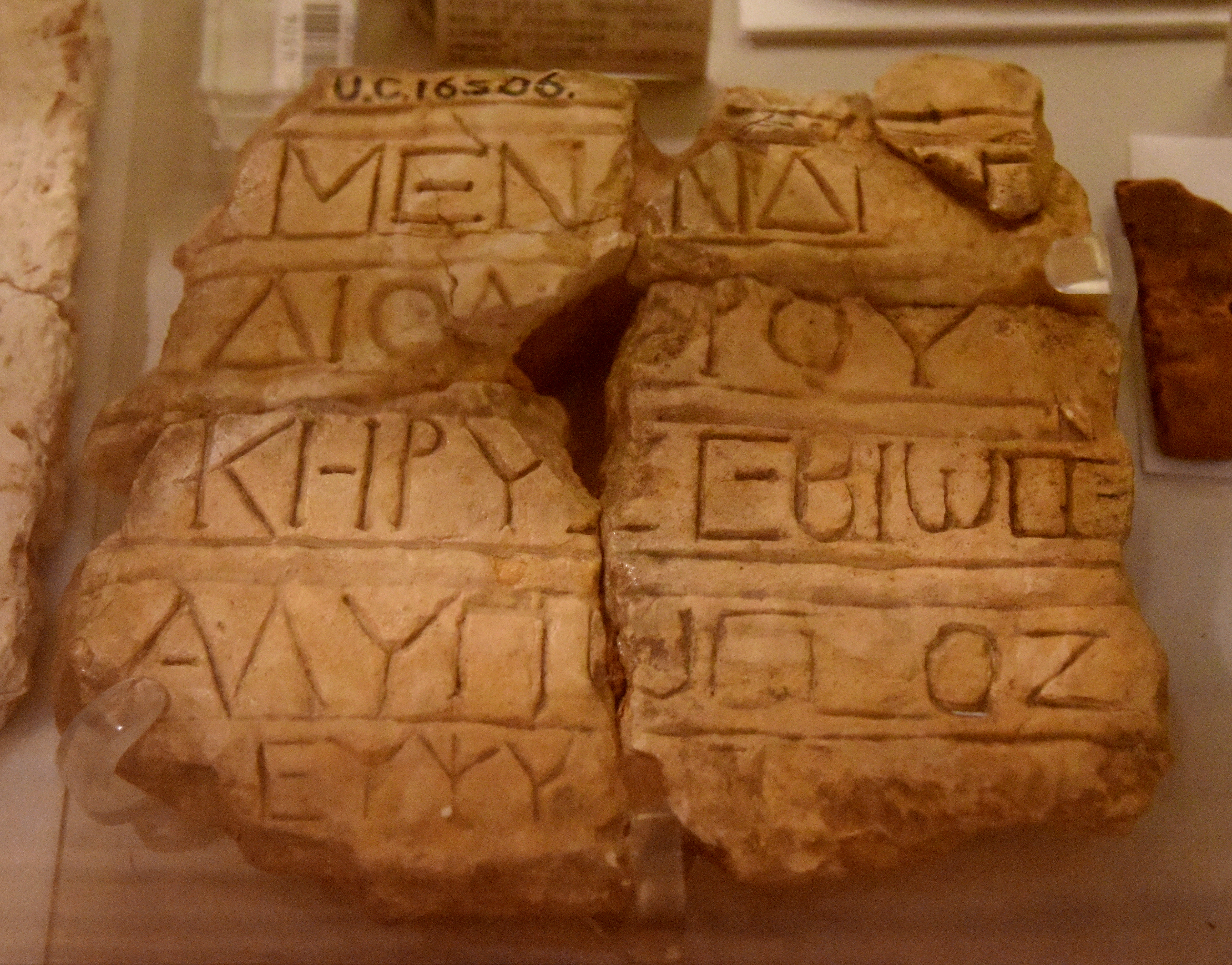 Tombstone inscribed in Greek Uncials. Limestone, 4 fragments. The inscriptions read "Menandros son of Diodorus, Herald, lived griefless 77 years." From Hawara, Fayum, Egypt. The Petrie Museum of Egyptian Archaeology, London. With thanks to the Petrie Museum of Egyptian Archaeology, UCL.